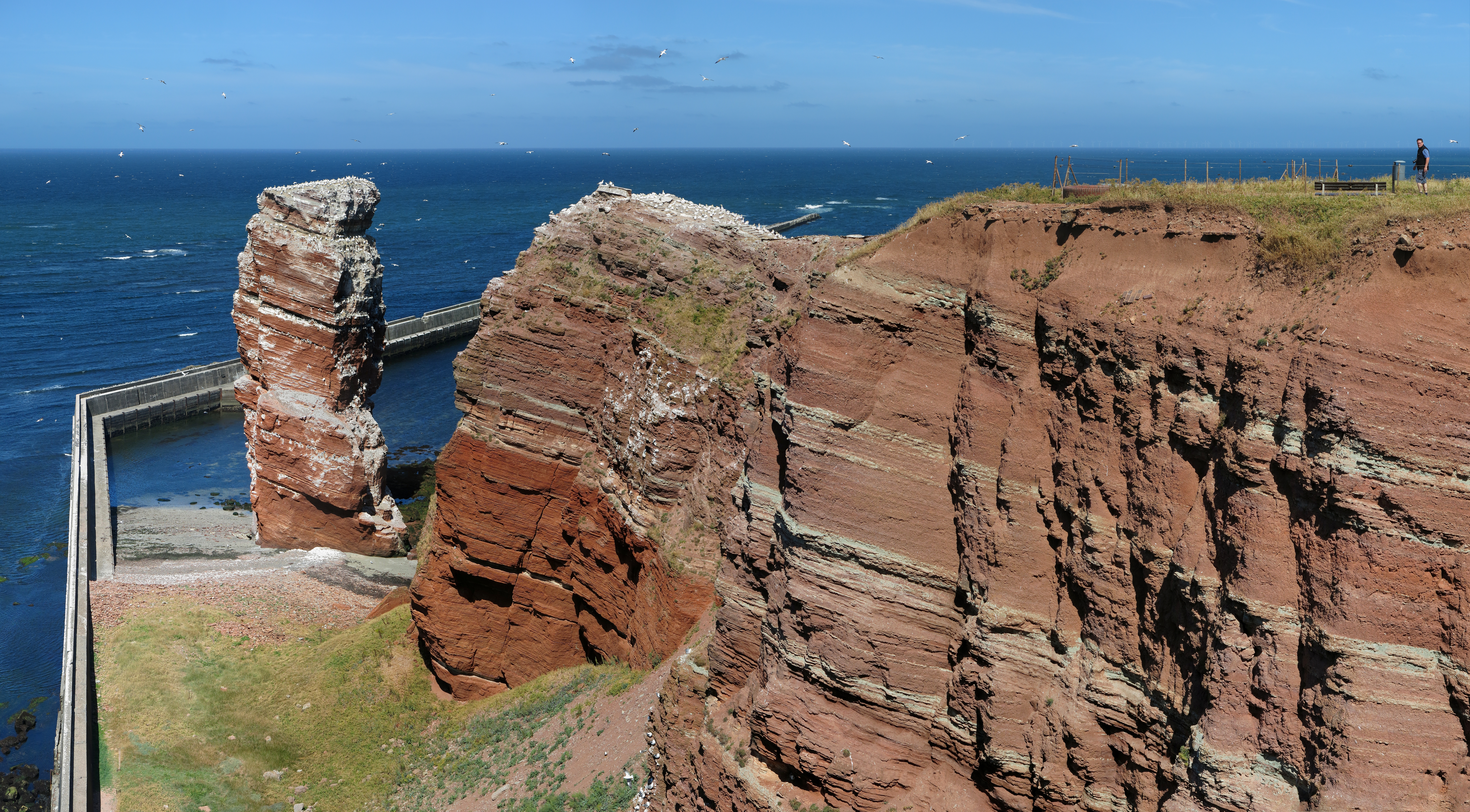 The cliffs at the northwestern end of Heligoland with the Lange Anna